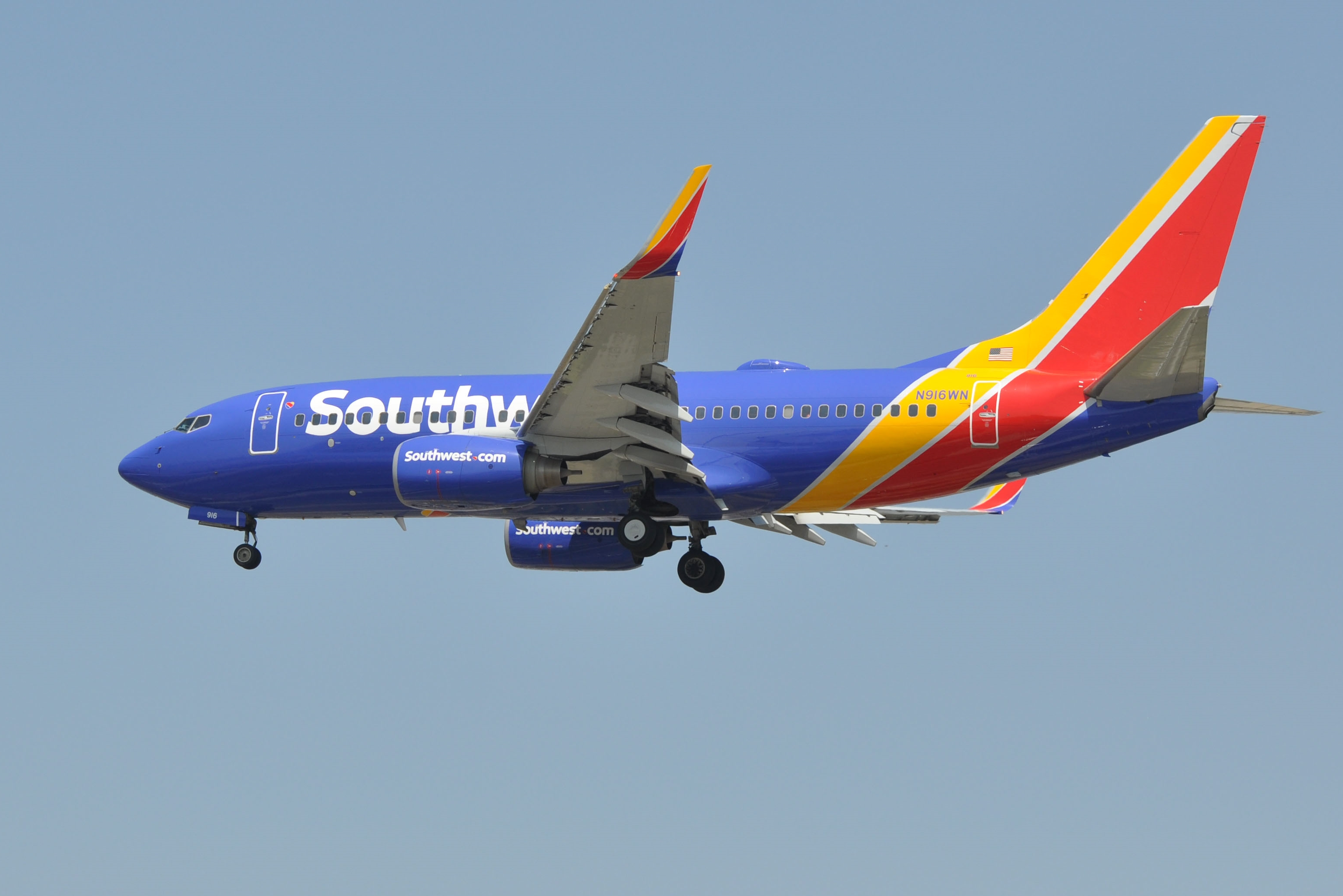 Southwest Airlines Boeing 737-700 on finals at LAX